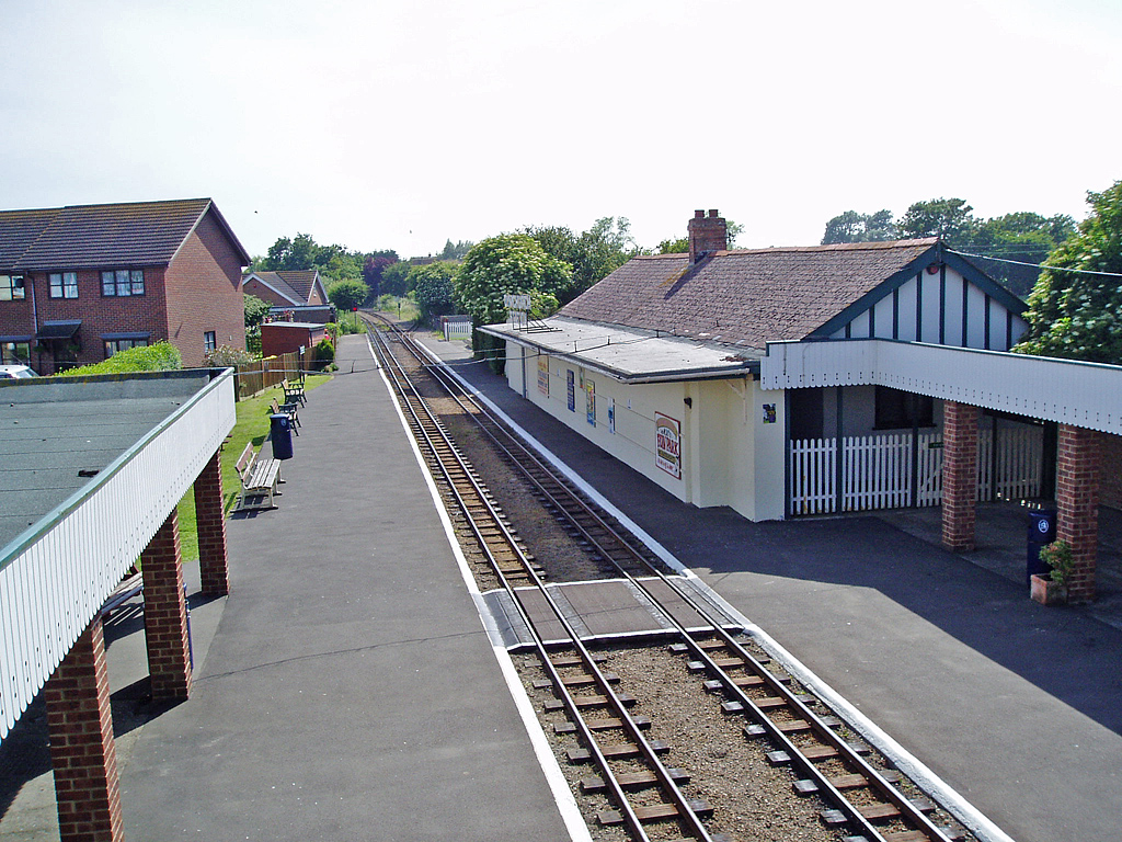 The Romney, Hythe and Dymchurch Railway station at Dymchurch, Kent - view from the footbridge over the track looking towards St Marys Bay.